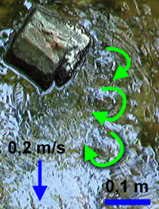 Von Kármán vortex street in a small stream